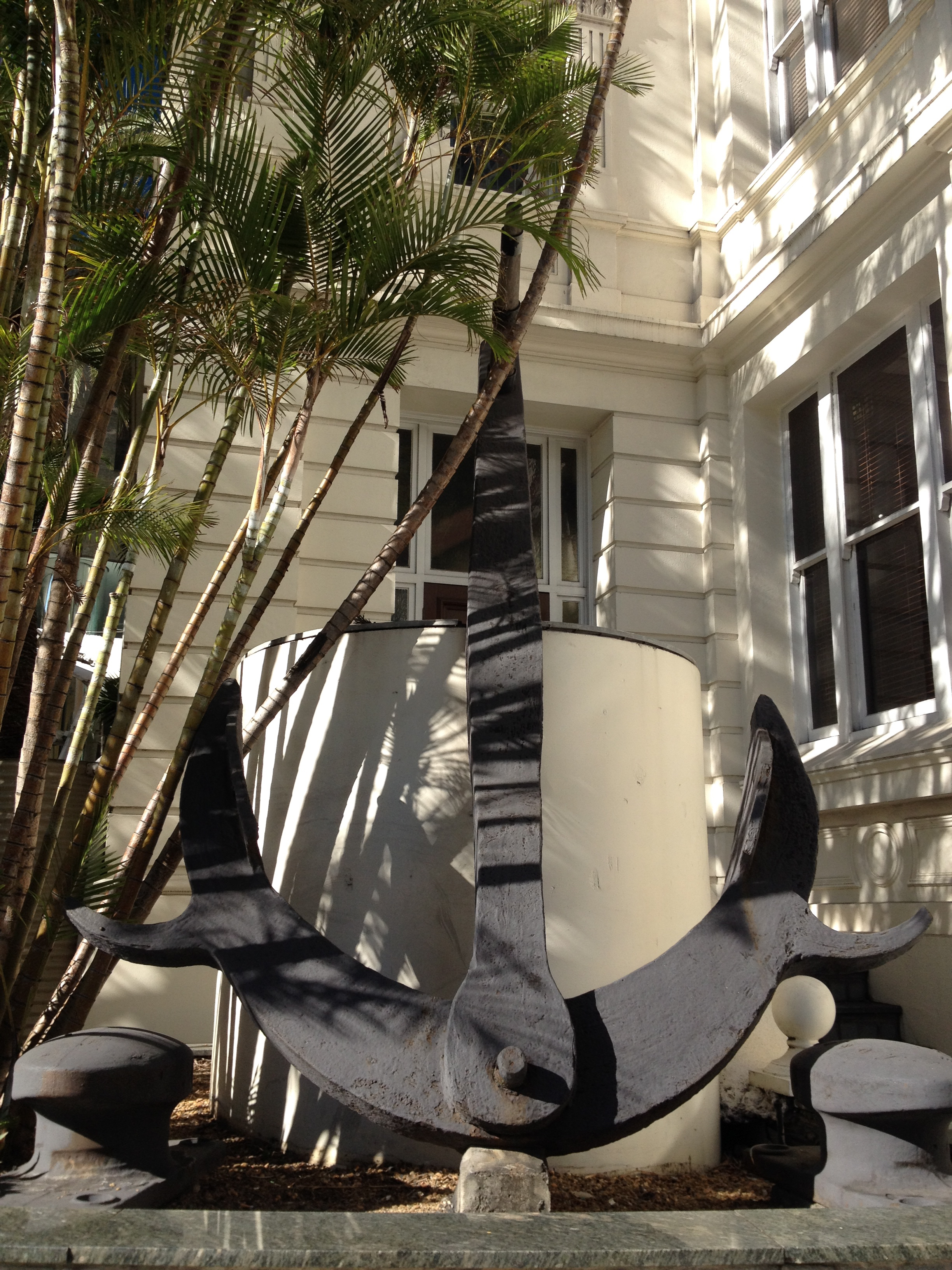 Anchor outside Naldham House, Brisbane, Queensland